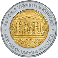 Coin of Ukraine